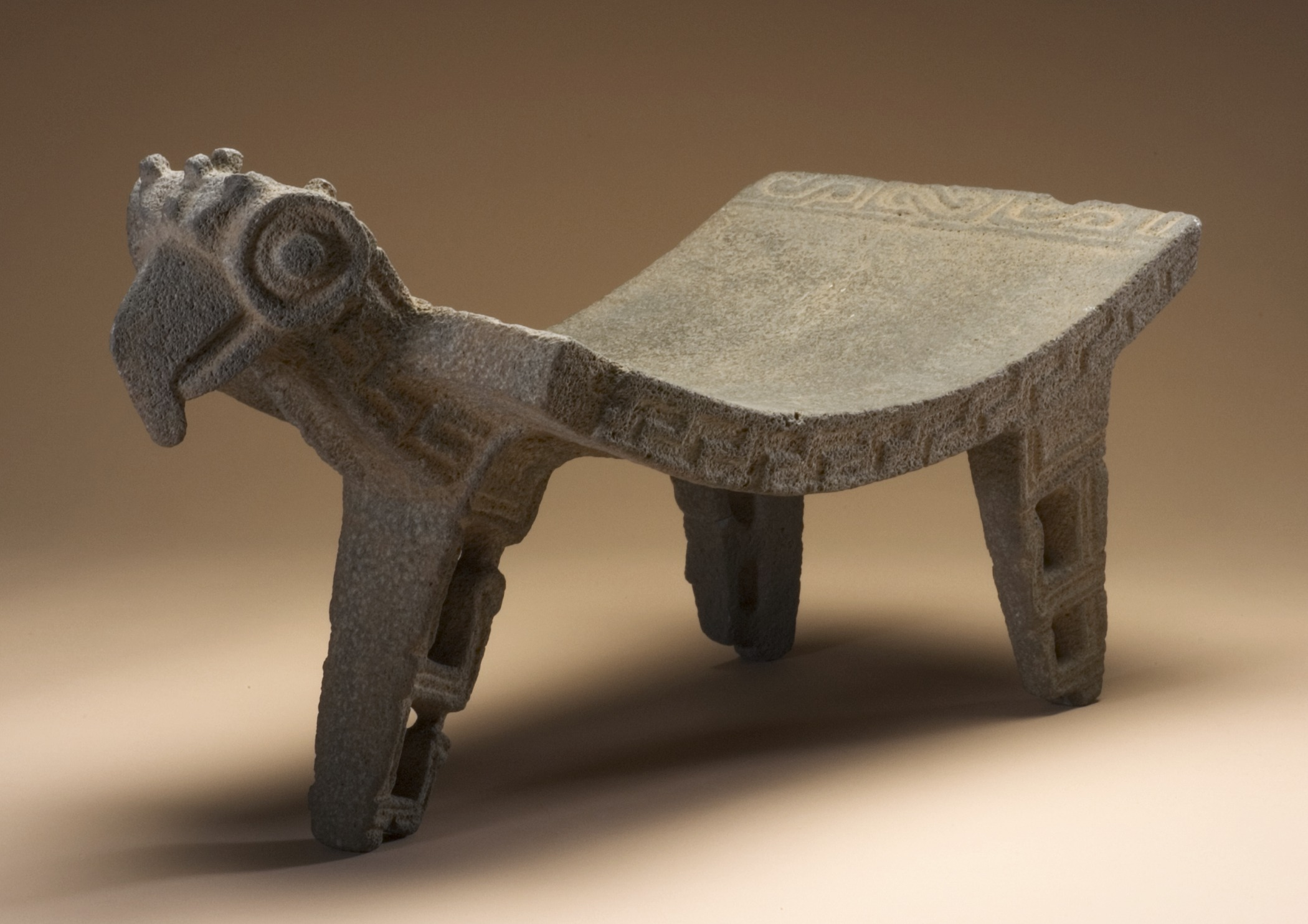 Costa Rica, Guanacaste-Nicoya area, 300-700 Tools and Equipment; mortars Basalt Gift of the Art Museum Council in honor of the museum's twenty-fifth anniversary (M.90.168.43) Art of the Ancient Americas Currently on public view: Art of the Americas Building, floor 4